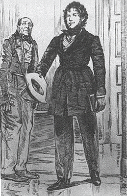 Illustration by Kardovsky for Turgenev novel «Rudin». Rudin's first appearance at Lasunskaya's